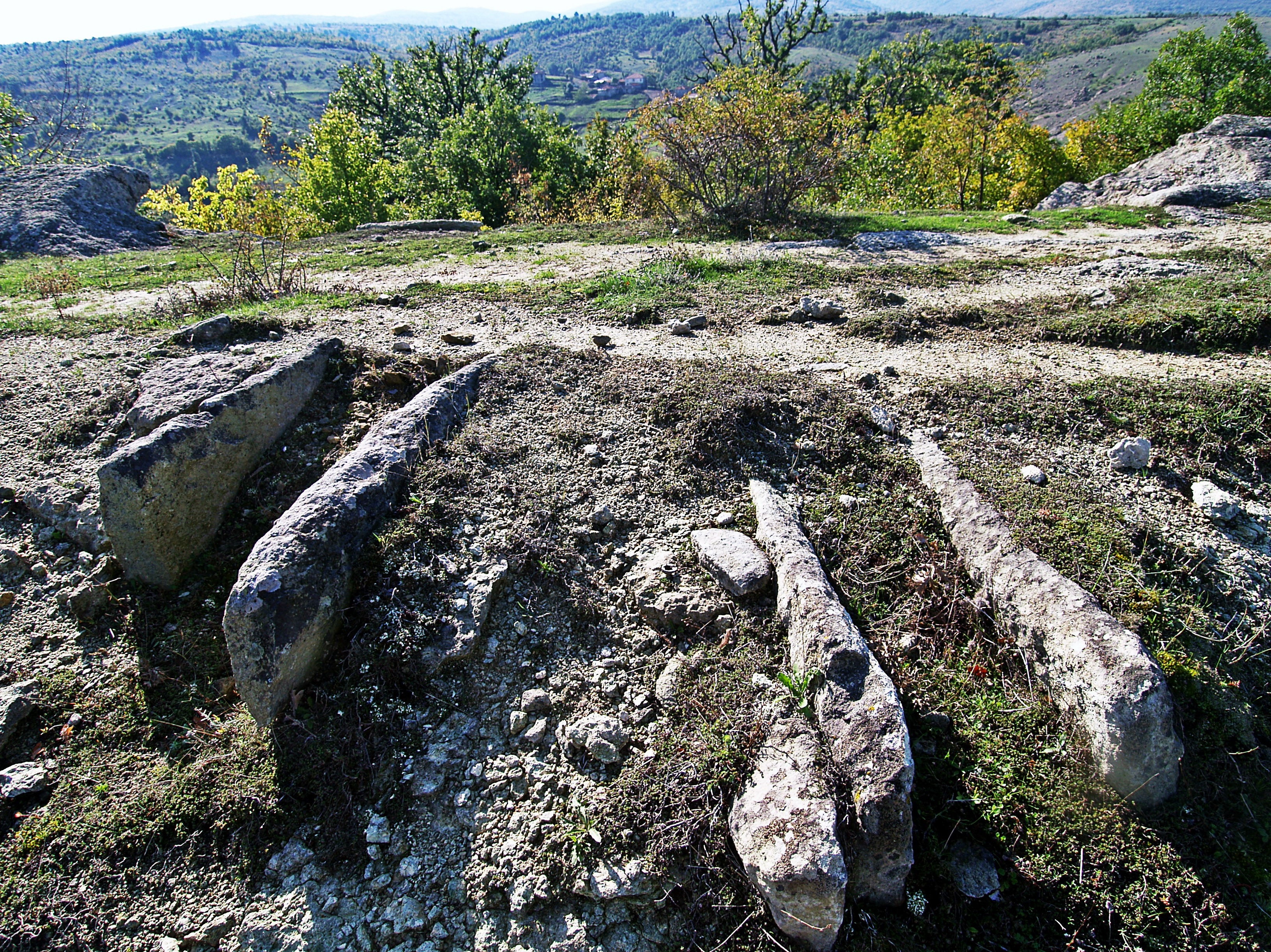 Kovil necropolis BG